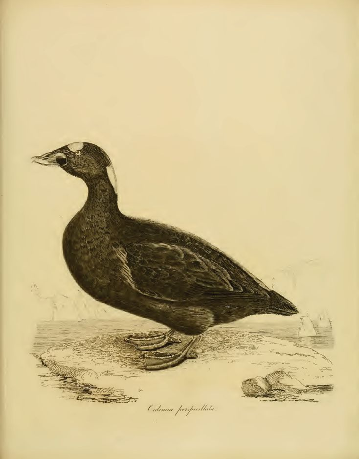 Oidemia perspicillata